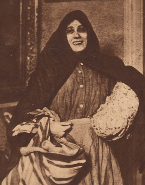 Mazie E. Clemens, demonstrating her "peasant girl" disguise, from a 1919 publication. A White woman with dark makeup around her eyes, wearing a heavy shawl over her head and carrying fabric-wrapped bundles.